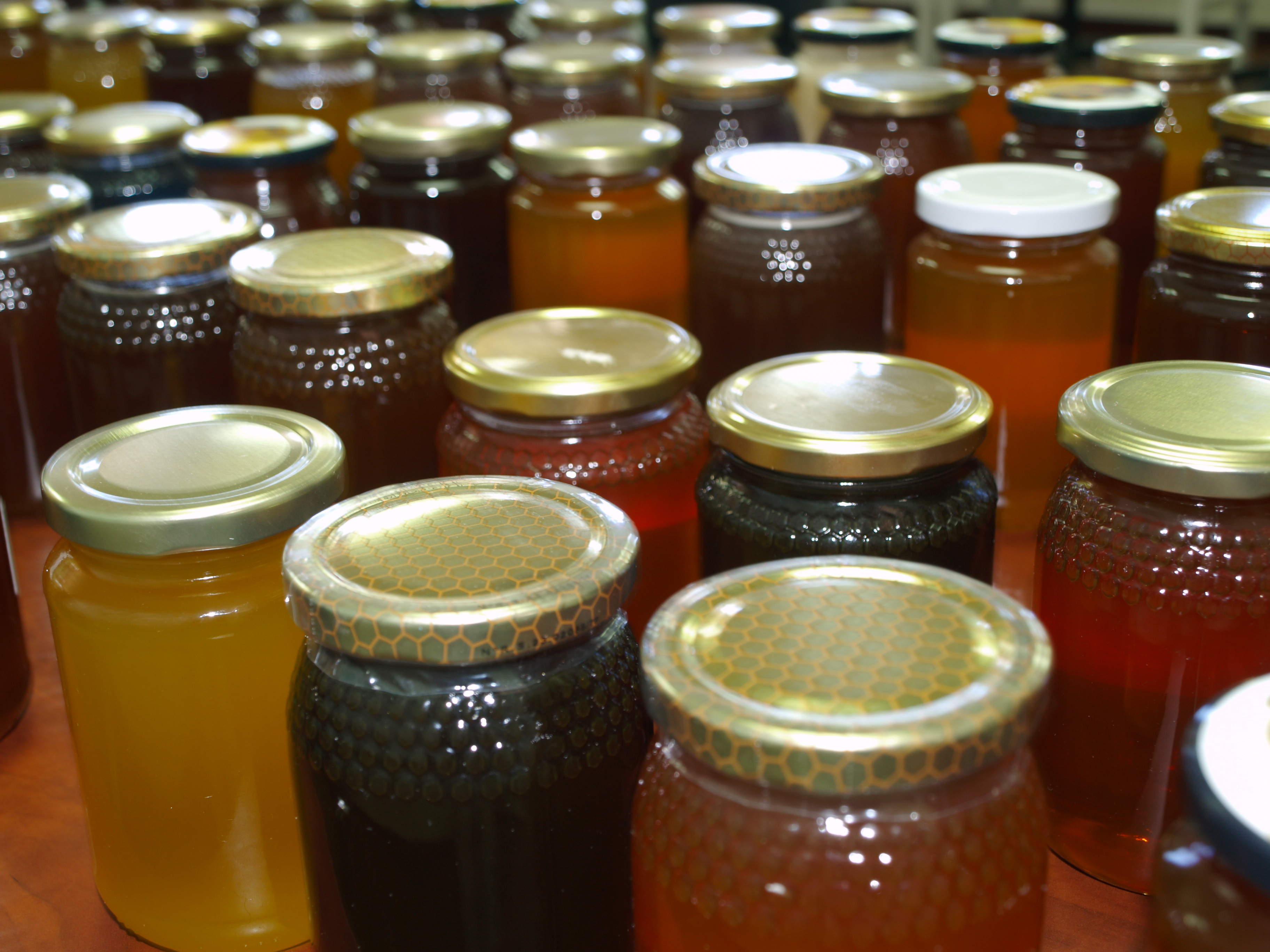 botes varias mieles